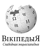 Wikipedia logo 2.0